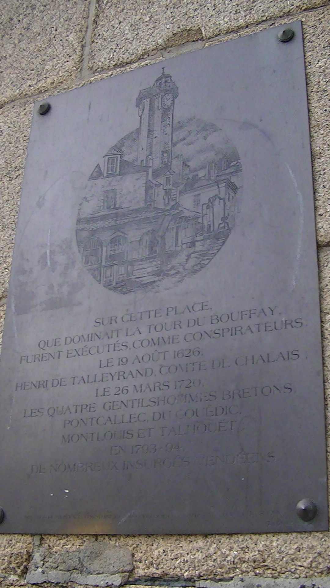 Plaque in Place du Bouffay, Nantes, commemorating the Tour du Bouffay and the prison and place of execution that were formerly located on the site. The plaque reads "Sur cette place, que dominait la Tour du Bouffay, furent exécutés, comme conspirateurs, le 19 août 1626, Henri de Talleyrand, comte de Chalais, le 26 mars 1720, les quatre gentilshommes bretons Pontcallec, Du Couëdic, Montlouis et Talhouët, en 1793-94, de nombreux insurgés vendéens."